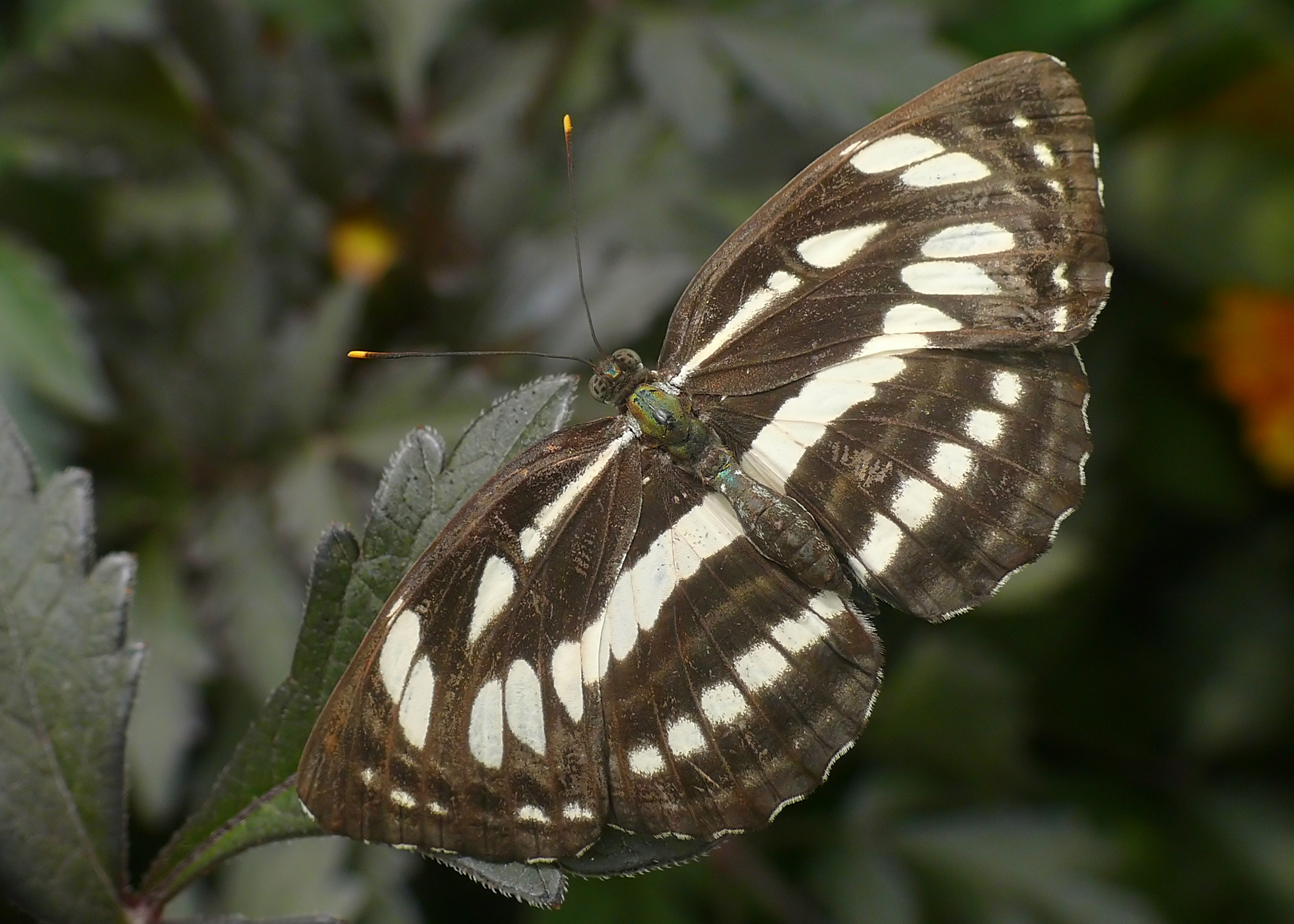 Neptis hylas - taken at Krohn Conservatory - Cincinnati, OH.